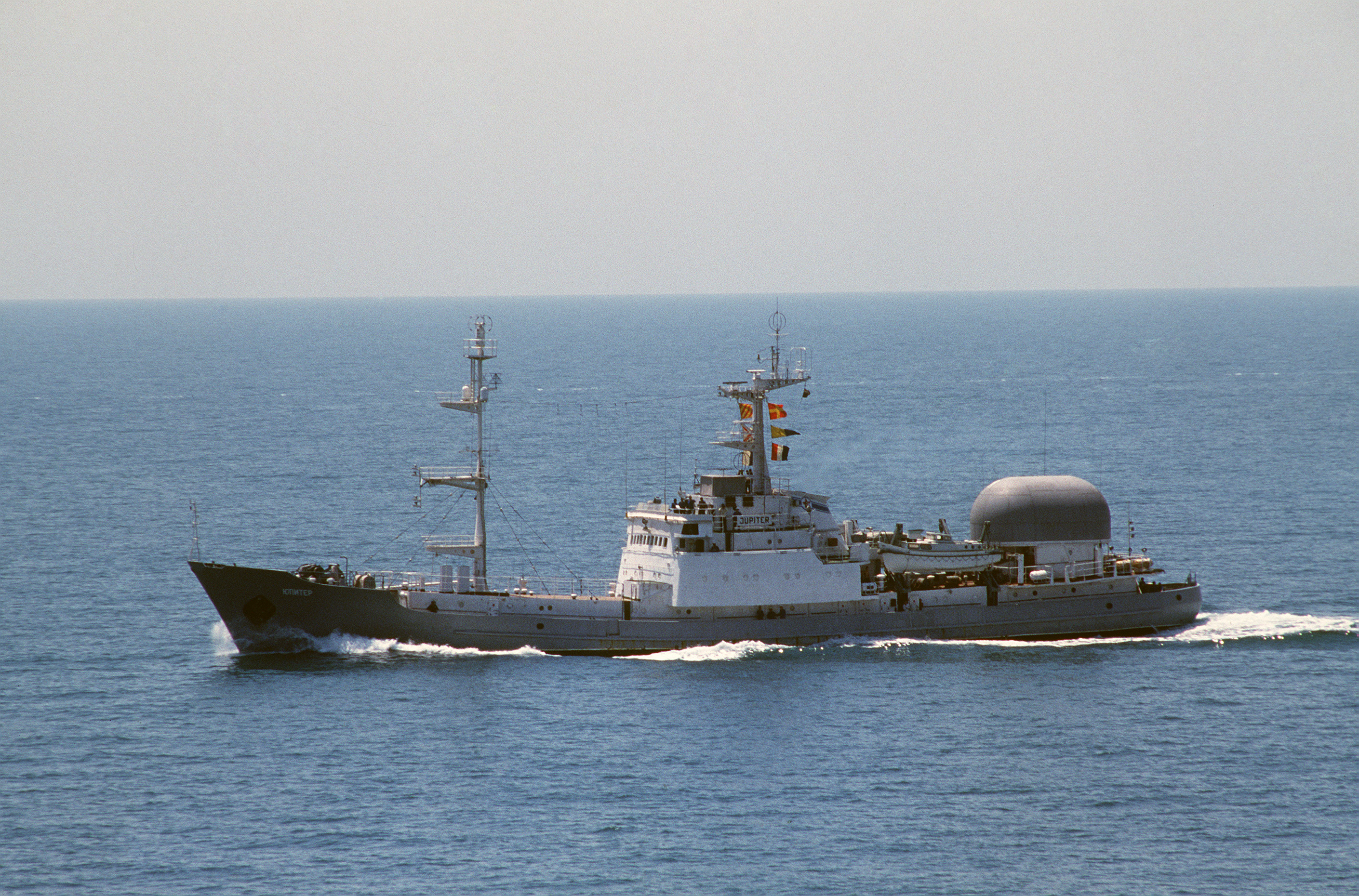 A port view of the Soviet Moma class intelligence collection ship JUPITER underway. Средний Разведывательный корабль Ченоморского флота СССР ССВ-41 "Юпитер"